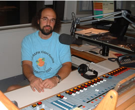 KPFK DJ Barry Smolin in the studio